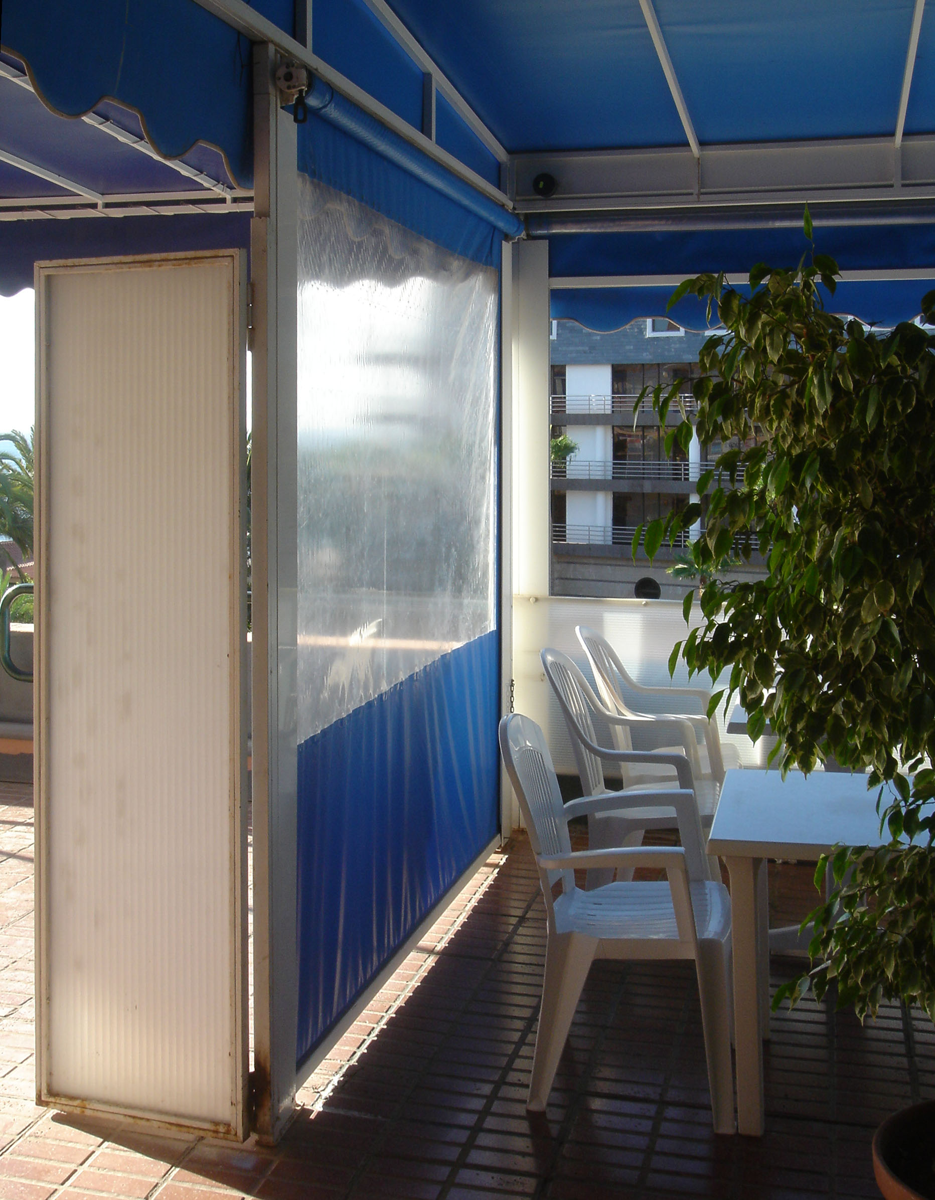 A roll-down windbreak of a restaurant in San Agustin, Spain